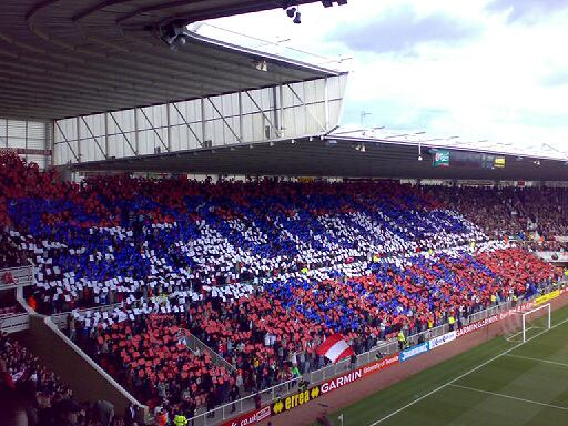 The card display from the Middlesbrough vs Cardiff City FA Cup tie played on 8th March 2008.